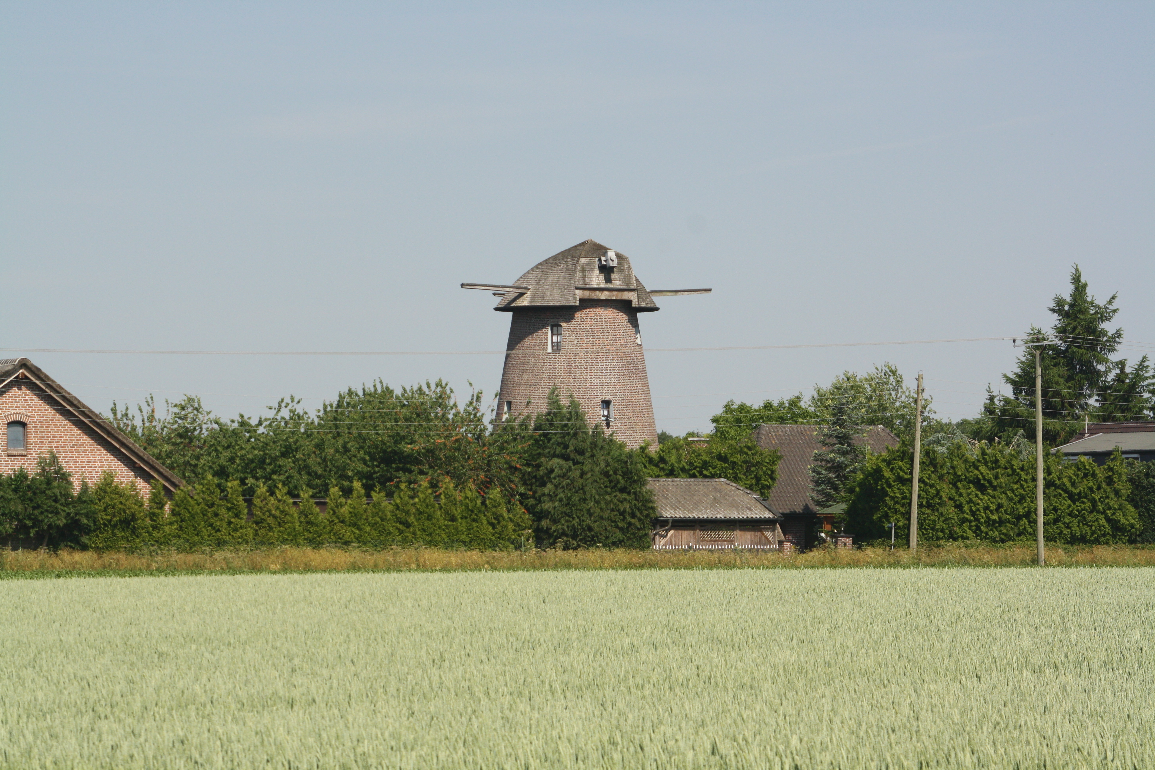 Windmill in Goch-Hassum, North Rhine-Westphalia, Germany